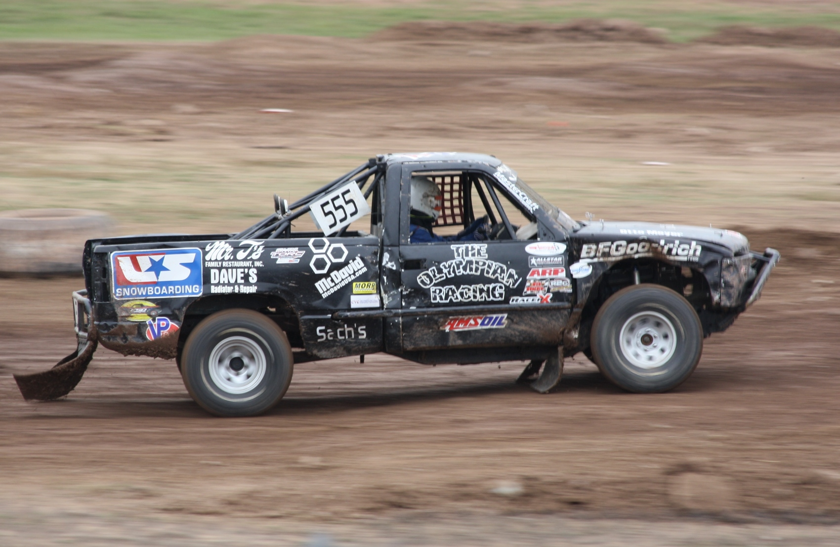 Stock Truck class driver Nick Baumgartner racing at the Oshkosh Speedzone racetrack in 2011.